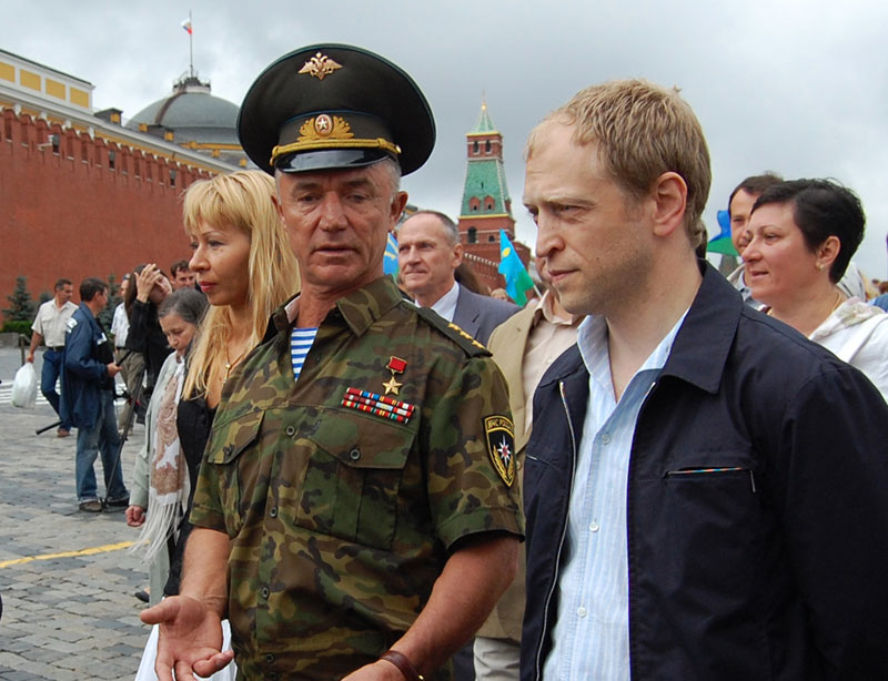 Russian Deputy Minister of Emergency Situations (MChS) Col. Gen. Valery Vostrotin, and Dmitry Baranovsky (right) at the Red Square.